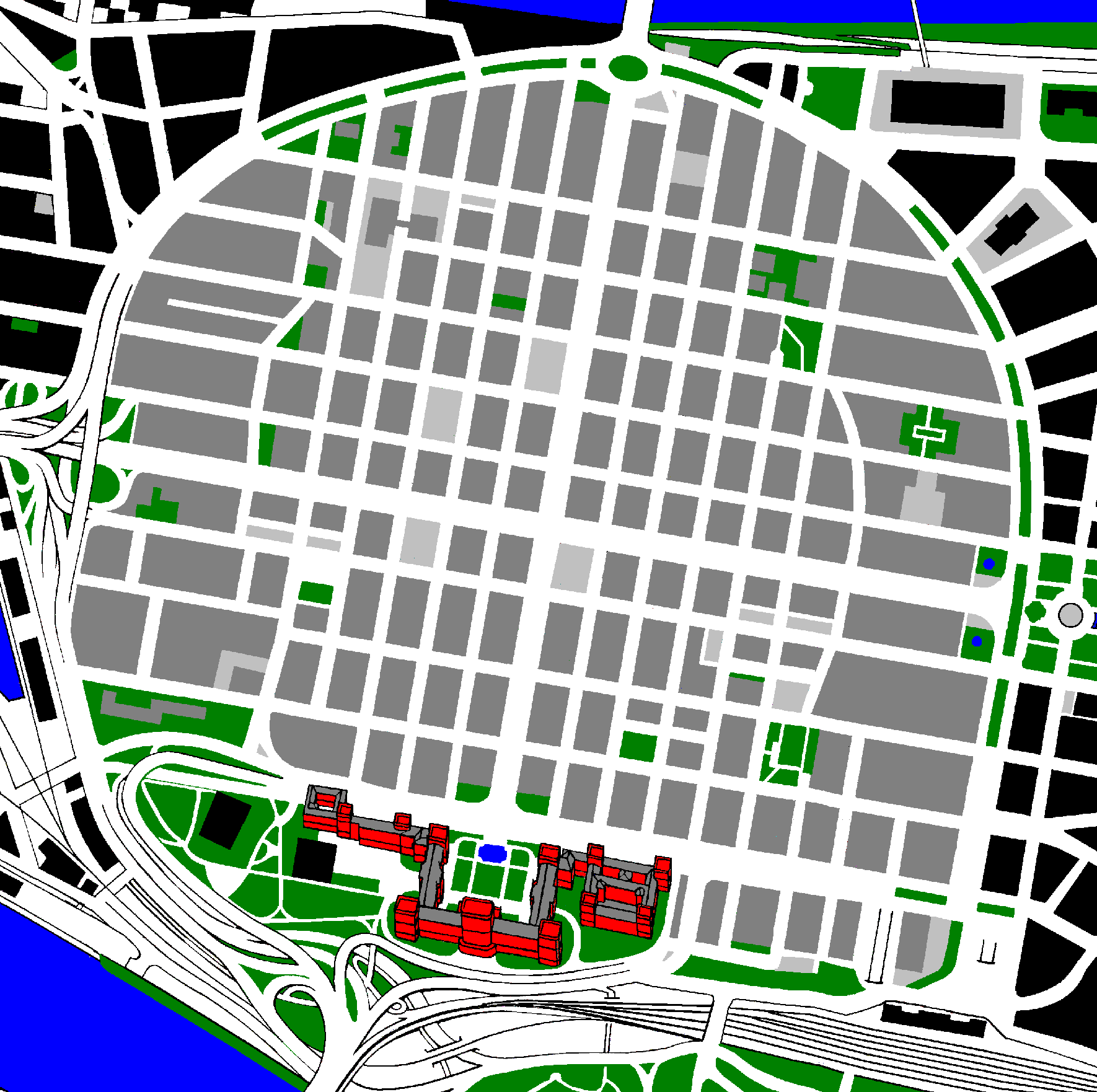 map of Mannheim in Baden-Württemberg, Germany